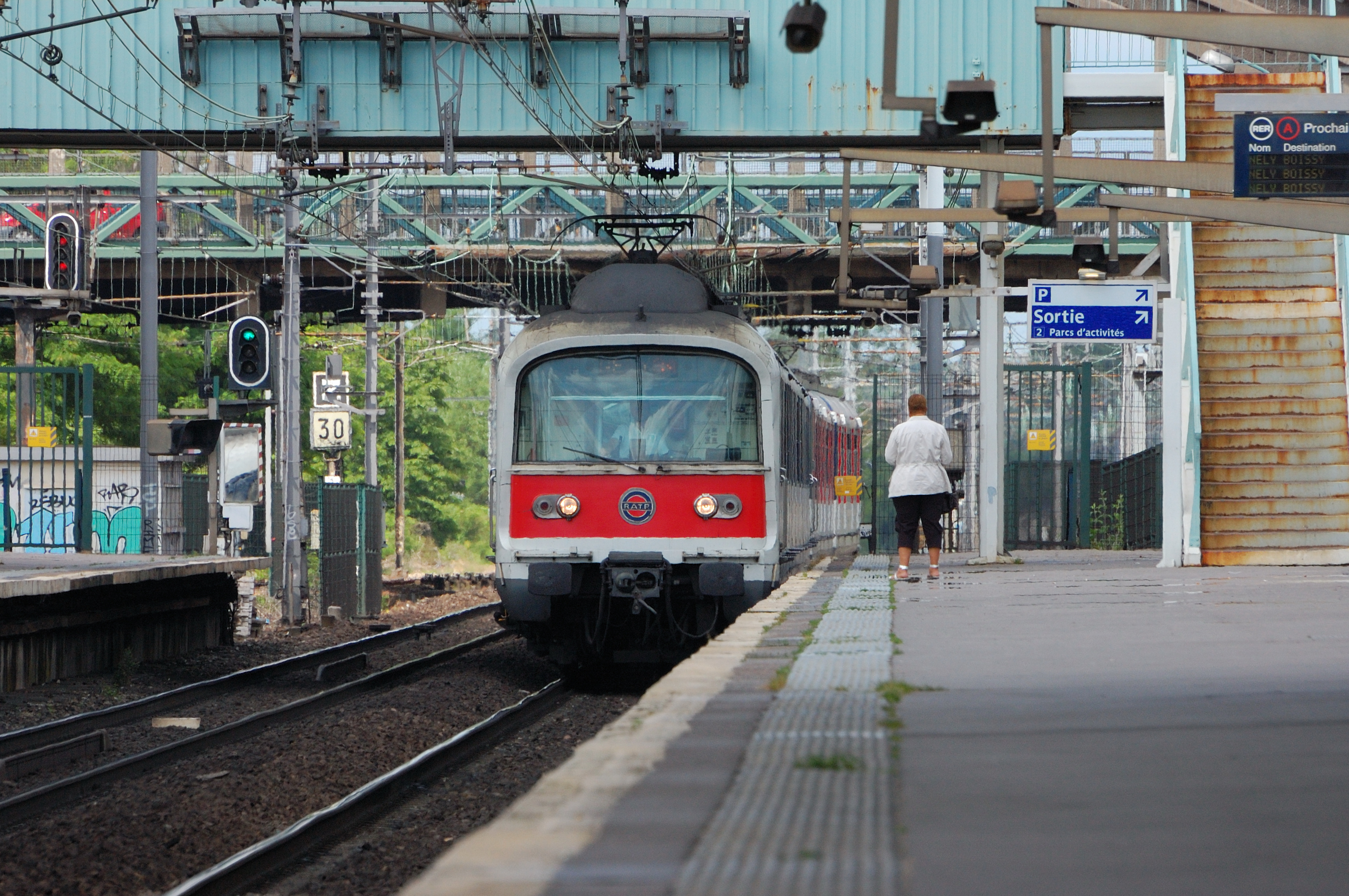 A MS 61 train coming into the Sucy-en-Brie's RER-A station.